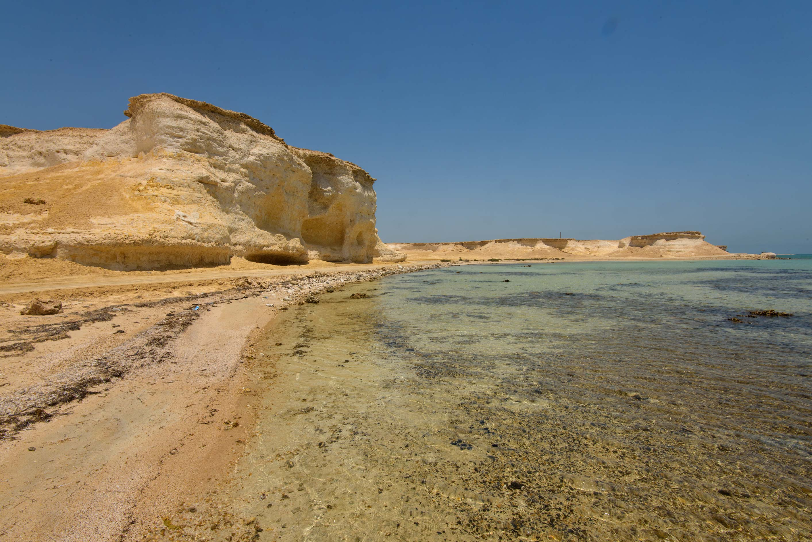 Sandstone cliffs at the cape of Ras Abrouq - the northernmost extension of the Zekreet Peninsula in western Qatar.